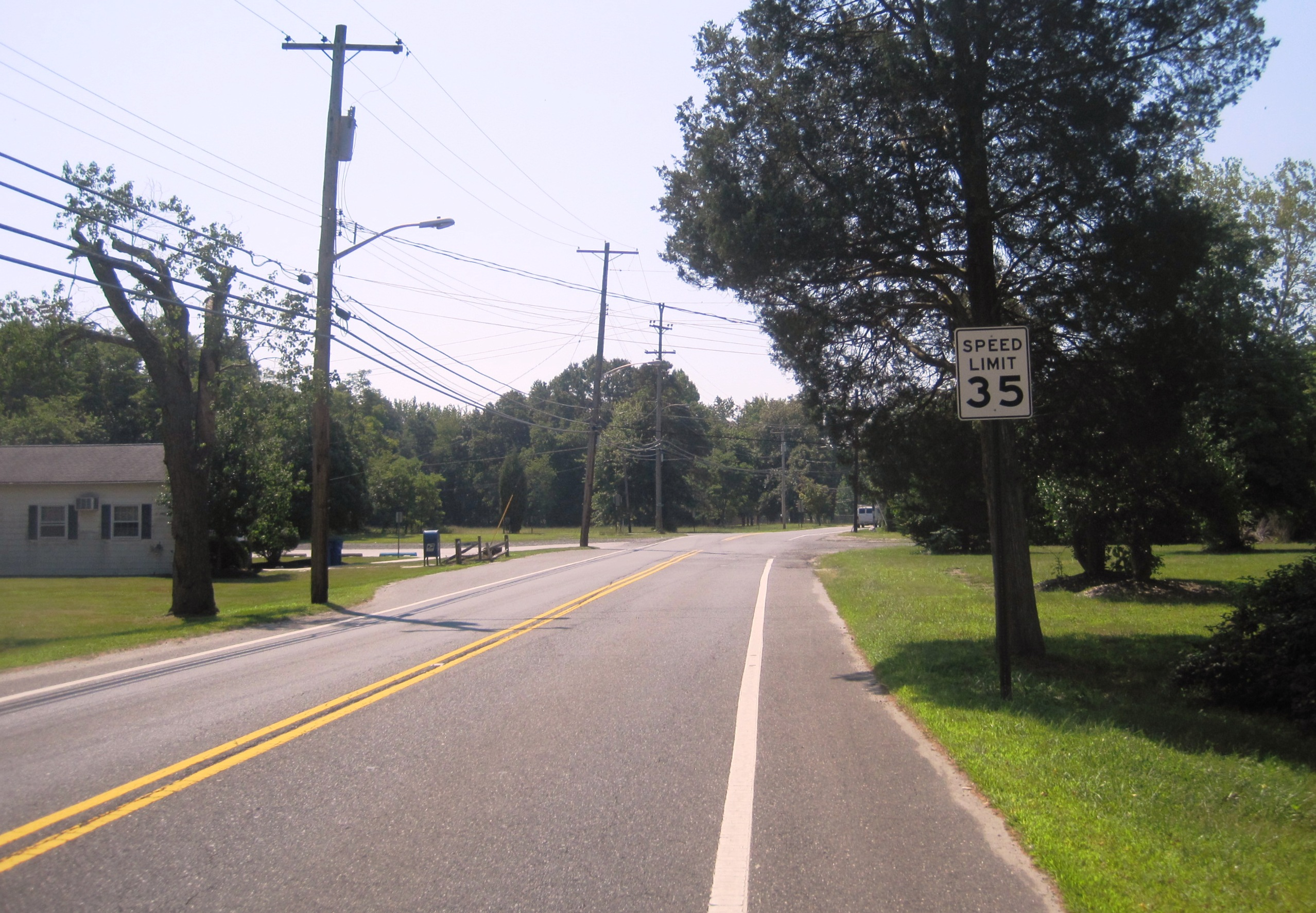 Photo of the unincorporated community of New Lisbon, New Jersey within Pemberton Township. Photo taken on southbound Four Mile Road (County Route 646) before Mount Misery Road (CR 645).